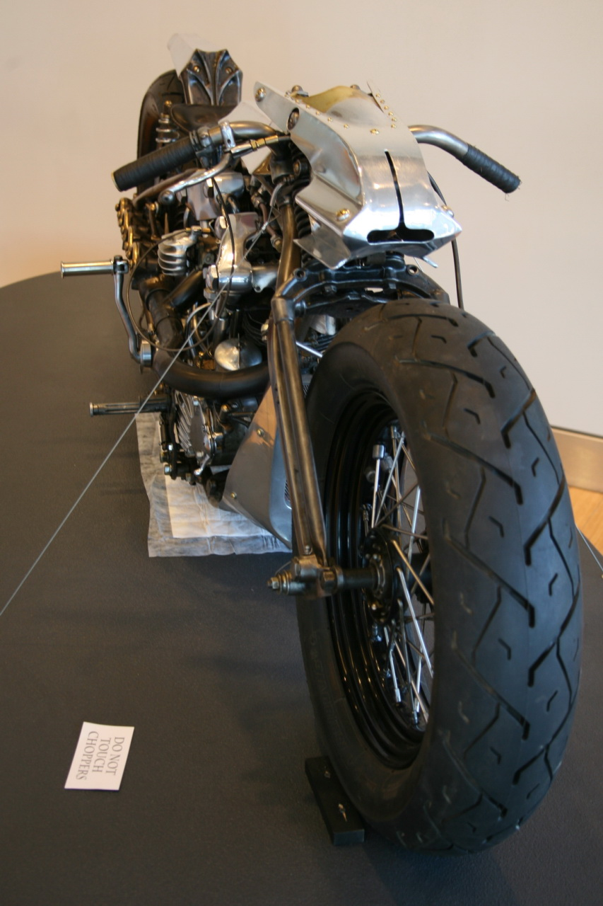 Kimura rescues old Harleys from their postmortem fates as saloon decorations, museum attractions, and—worse—from having their dissected parts dispersed throughout a backwater of garages to become paperweights, ashtrays, and doorstops. His company, Zero Engineering, based in Okazaki City, Japan, is comprised of a small group of adherents who are loyal to both Kimura-san and his vision. True to the chopper way, Zero’s motorcycles also embrace contradictory philosophies of design, in this case a blend of Western and Eastern paradigms. Kimura chose not to follow the parade of shiny, chrome-plated, technologically freighted, and extravagantly painted bikes. He prefers antediluvian engines stuffed into chopped, rigid, gooseneck frames with an itsy-bitsy peanut gas tanks, leather bicycle seats, big fat balloon tires, wire wheels, and kick-starters. He exposes the mechanical guts of his bikes and virtually shines a spotlight on their prehistoric parts, including drum brake and Linkert carburetors. His electrical system might look as if it were wired by Nikola Tesla. Every piece of his machines flaunts its age. But don’t let the richly patinated façade fool you or the fact that it looks like it’s about to dump oil. It is put together like a fine Swiss watch—okay, maybe a Seiko. Its new form melds seamlessly into the Japanese landscape, as natural looking in front of an ancient Shinto shrine as the steed of a Tokugawa samurai warrior—out of time but not out of place, reincarnated. Kimura believes that old motorcycle designs transposed to contemporary choppers have a metaphysical power to transport riders into the past. In deference to his affinity for old engines, he strips away what a bike does not need to show off its power plant. The fact that old motors and frames are made of less malleable iron and steel, instead of aluminum, often dictates the forms that Kimura must follow and how a bike will ultimately look.